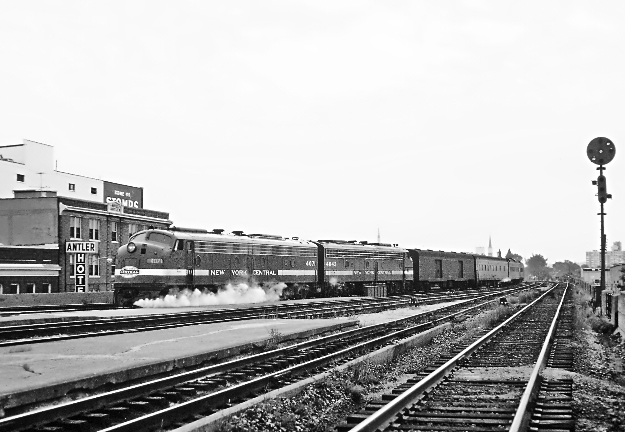 NYC 4071 and 4042 (E8As) with Train 15, the Ohio State Limited, arriving at Dayton, Ohio Union Station on September 15, 1967.